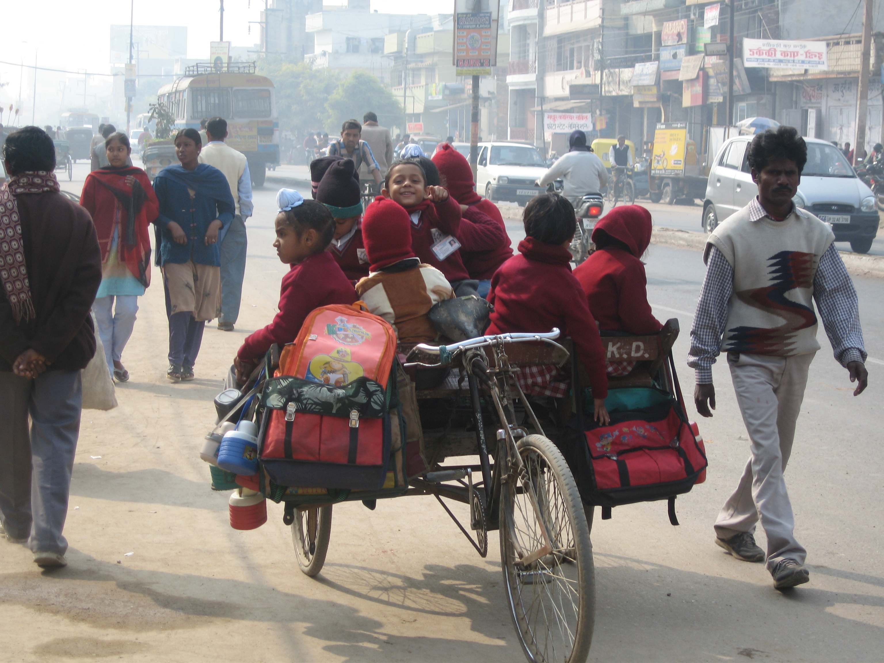 A rickshaw full of school kids in Ranhera, India